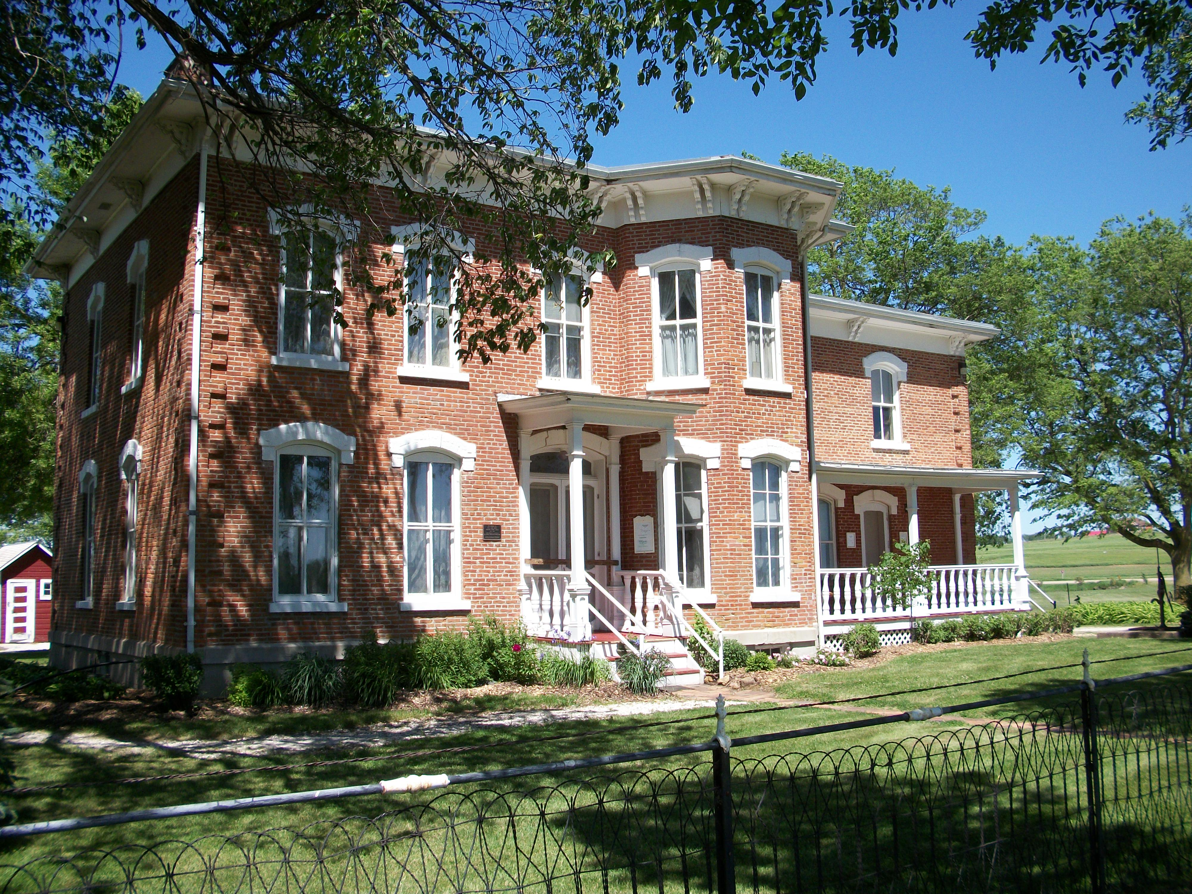 Corydon Brown House located in the Humboldt County Historical Museum, Dakota City, Iowa.